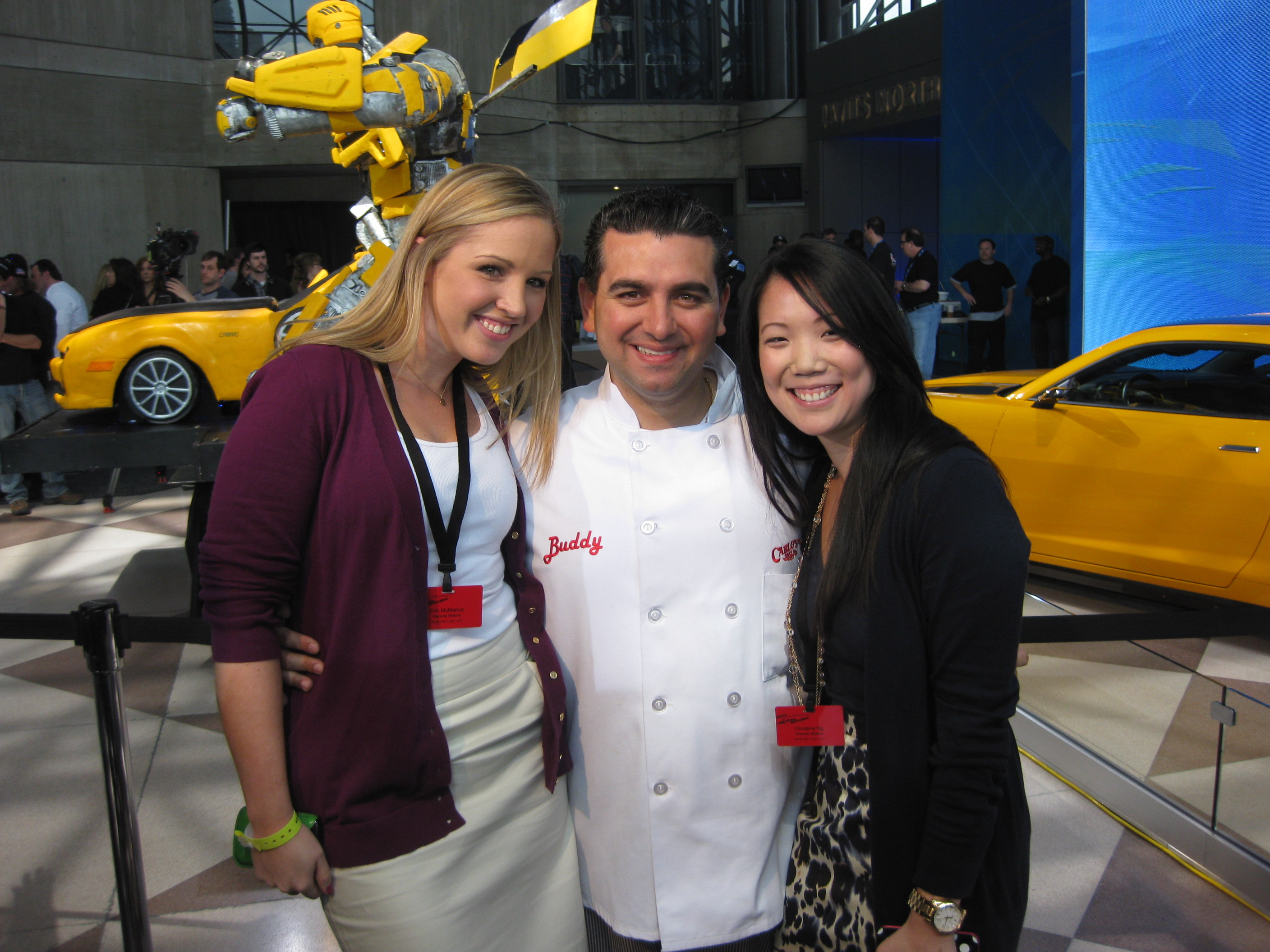 The Cake Boss Buddy Valastro with members of General Motors team!